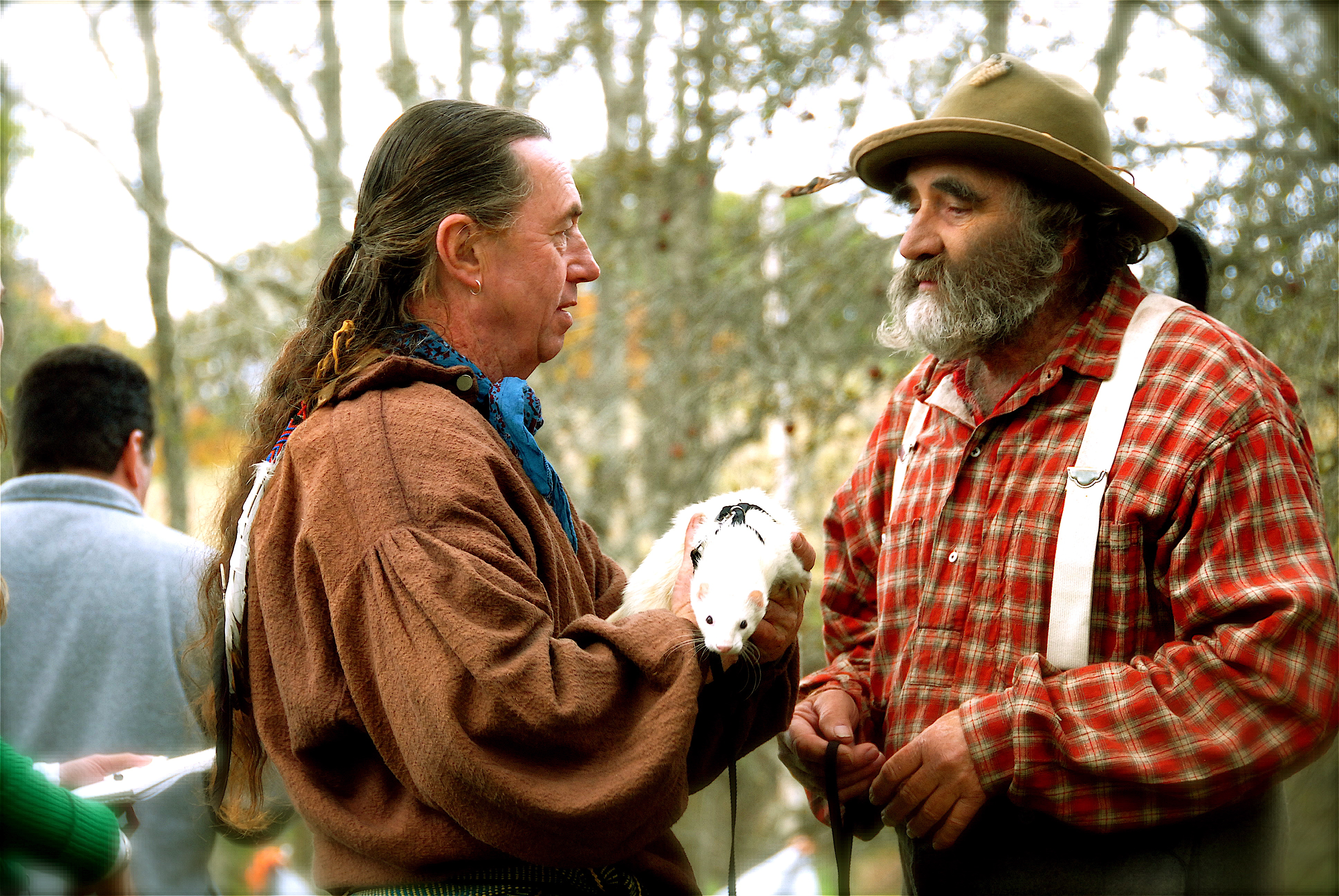 A movie still from the day shoot of 'Dean Teaster's Ghost Town' with Robert Bradley and Herbert 'Cowboy' Coward. Both are original Ghost Town in the Sky gunfighters from the original 1961 crew. This day shoot took place in Canton North Carolina and depicted the homestead of Harmon Teaster, legendary western North Carolina mountain man.